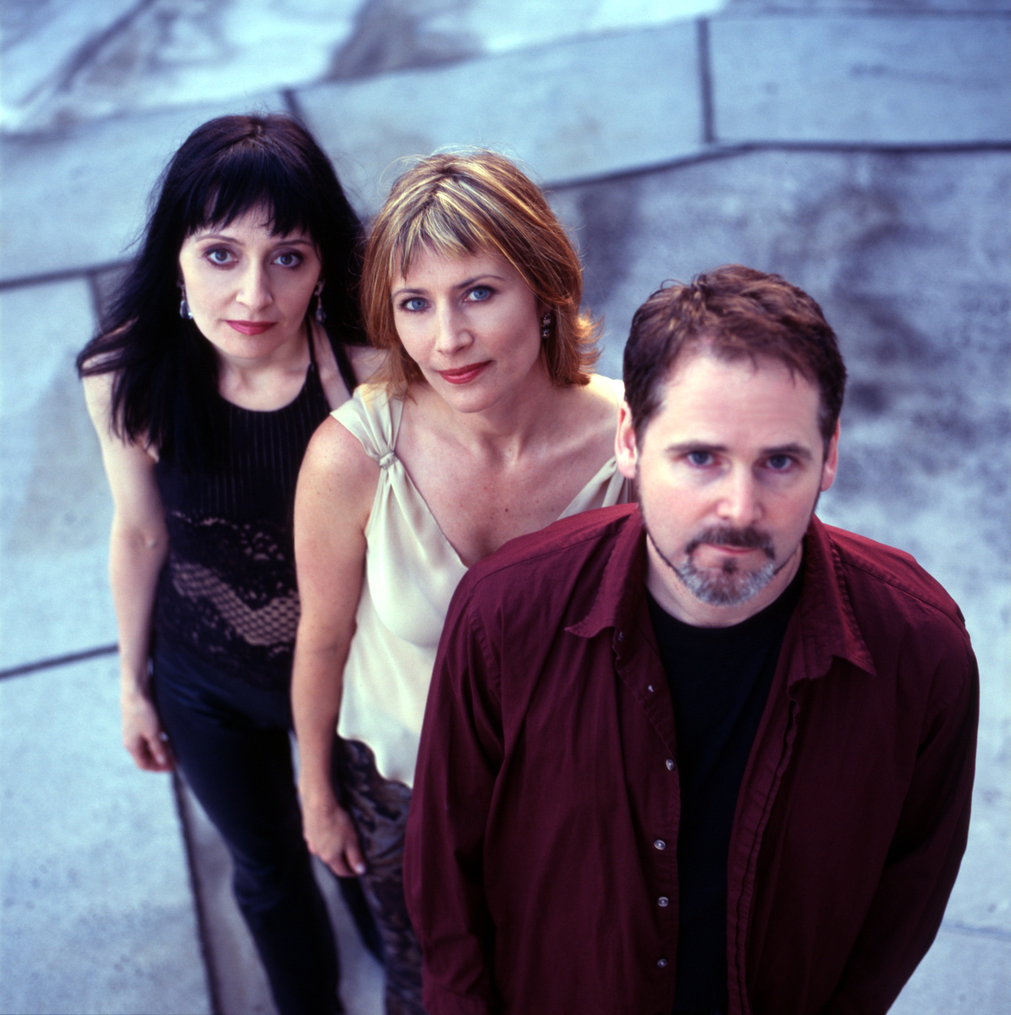 October Project on rooftop. From left, Julie Flanders, Marina Belica, and Emil Adler.